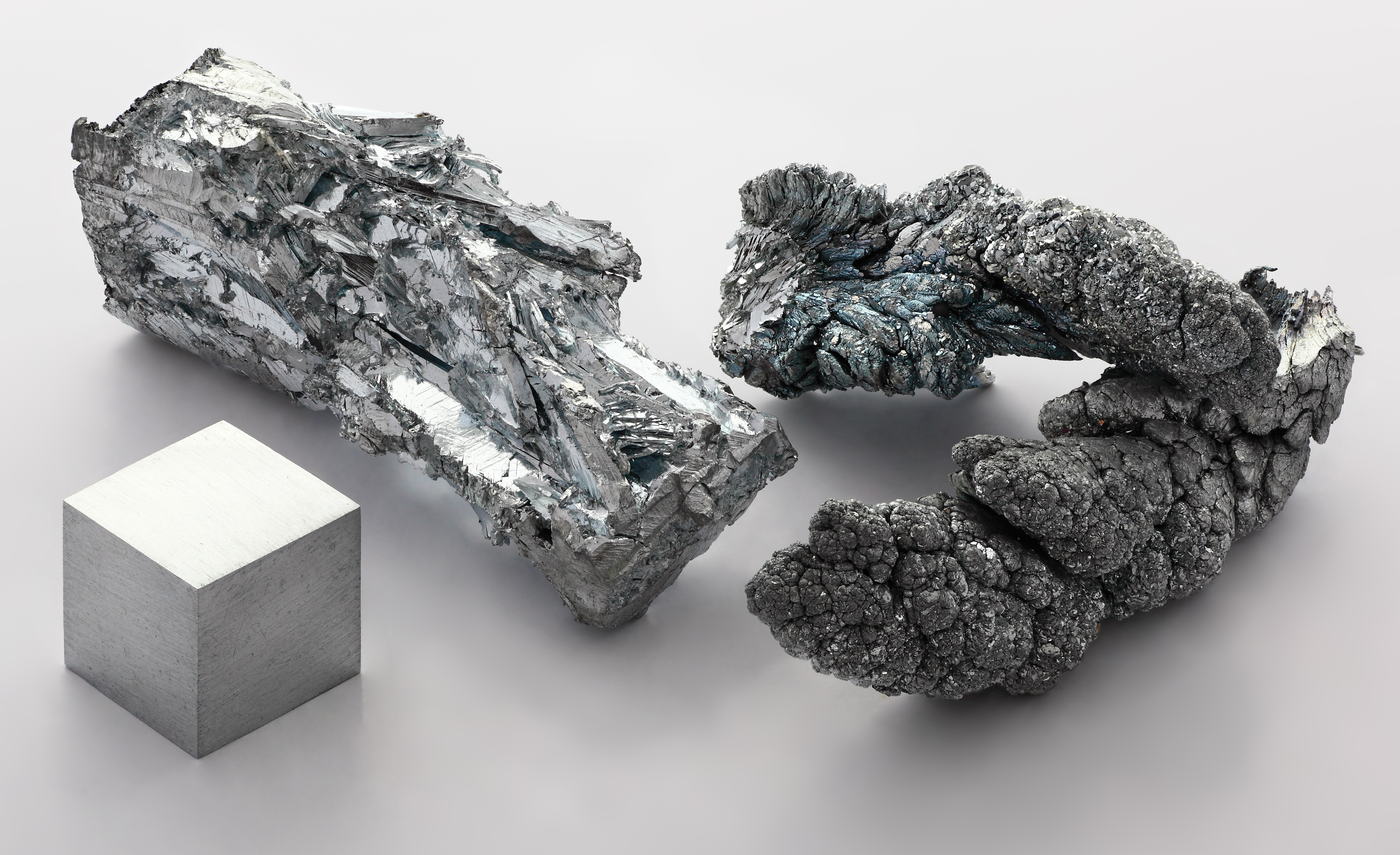 zinc, purity 99.995 %, left: a crystaline fragment of an ingot, right: sublimed-dendritic, and a 1 cm3 zinc cube for comparison.